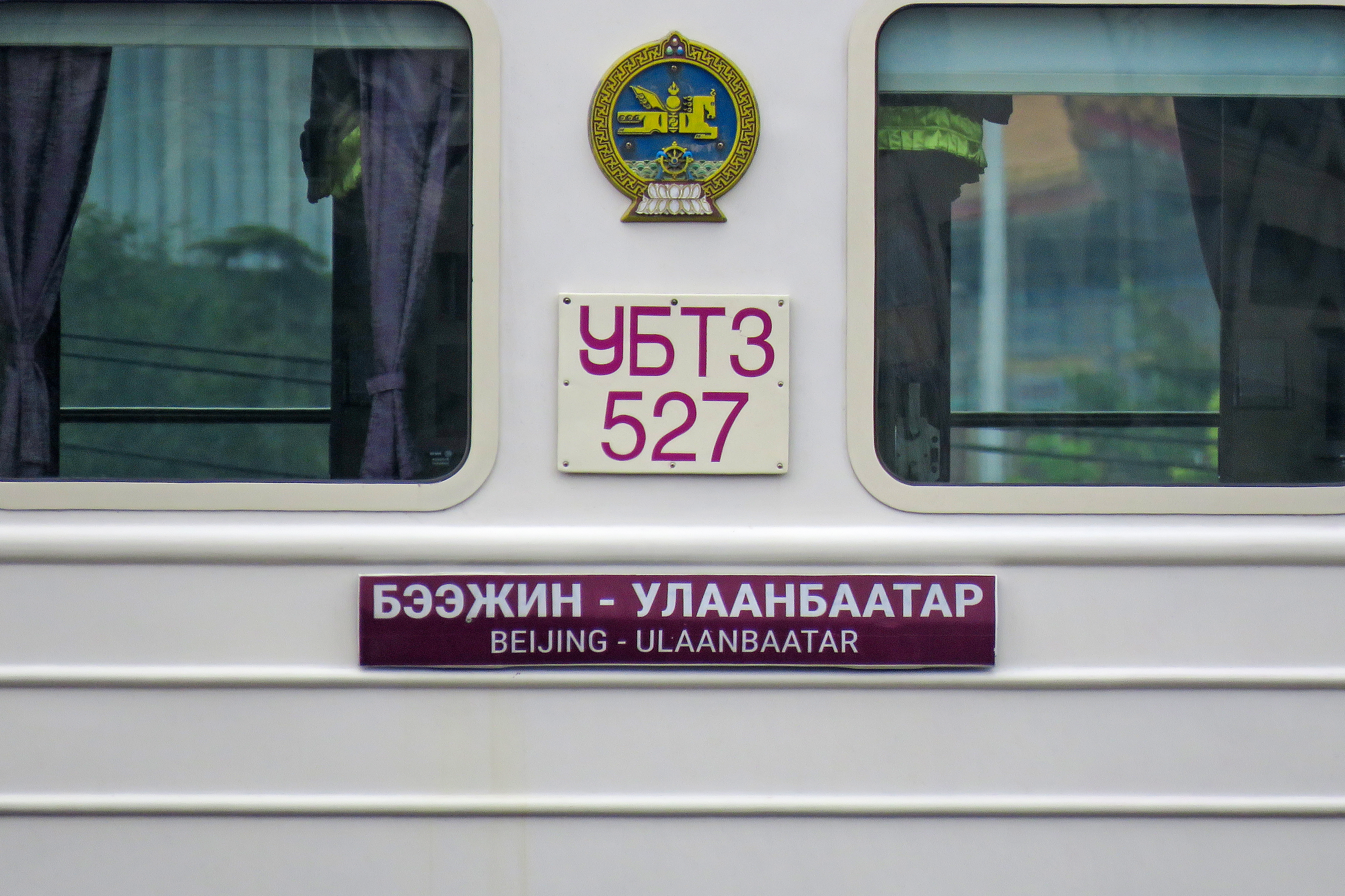 Run by Mongolian carrier UBTZ, this train arrives Beijing every Friday.